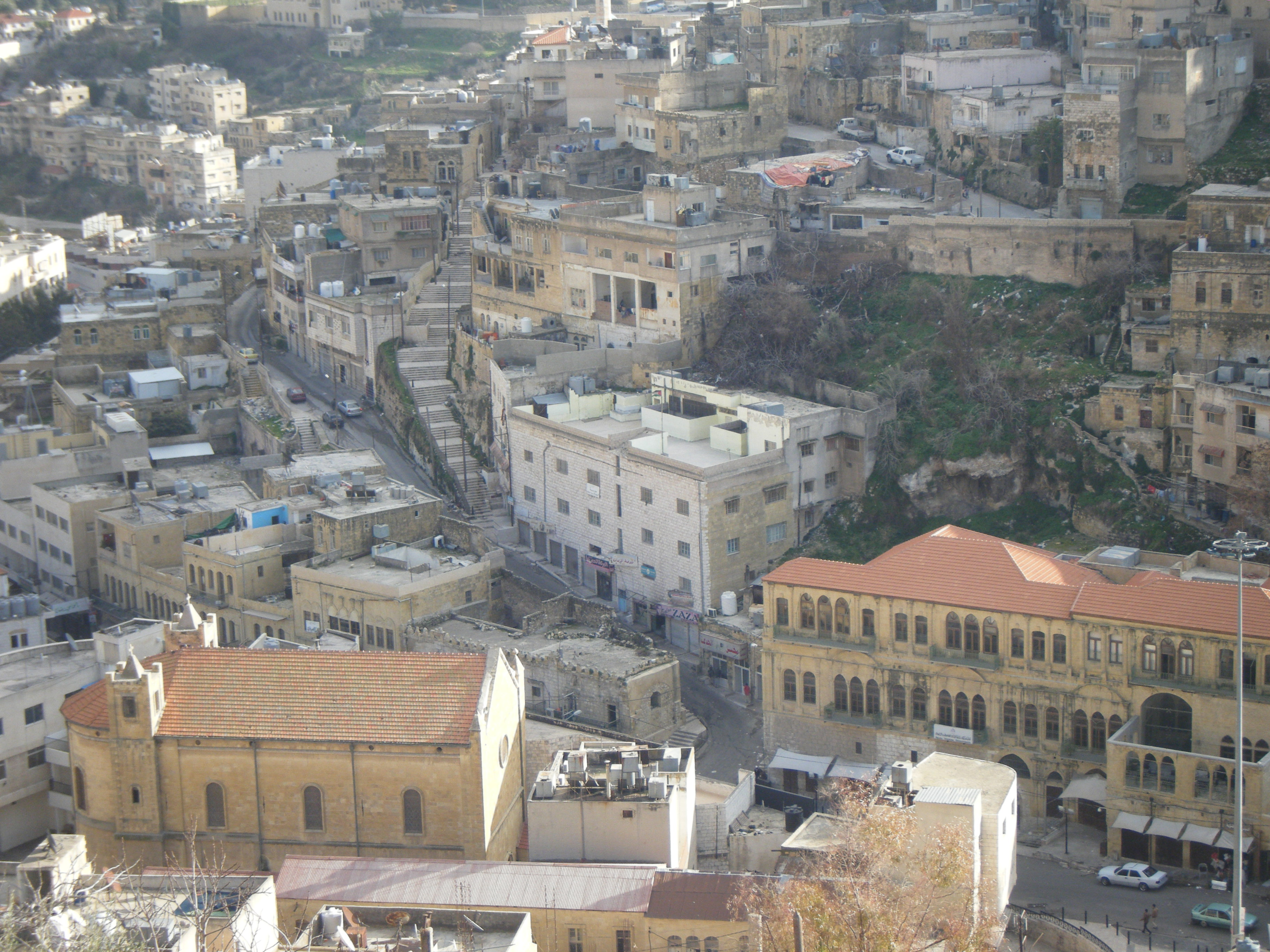 Latin/ Roman orthodox church, and Jaber house in Old Salt, Jordan